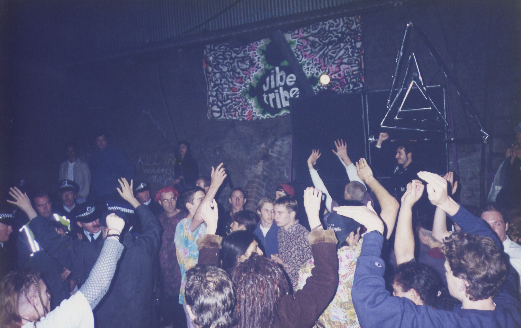 1995-04-08_Vibe_Tribe_09